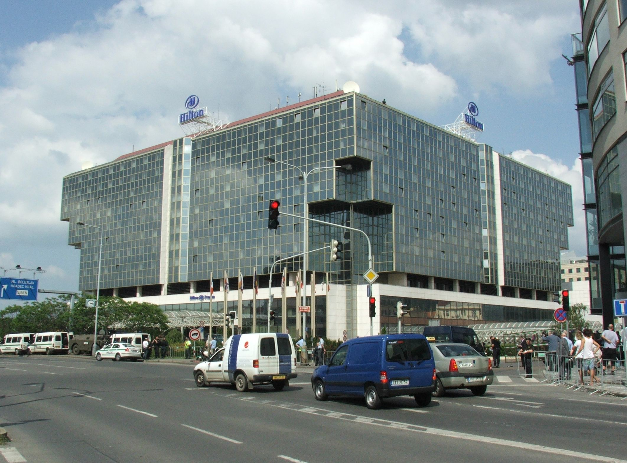 Hilton Hotel, Prague- Těšnov, 5th of July 2007, surrounded by the Czech police during the visit of the U.S.president Bush who probably spent previous night in this hotel.